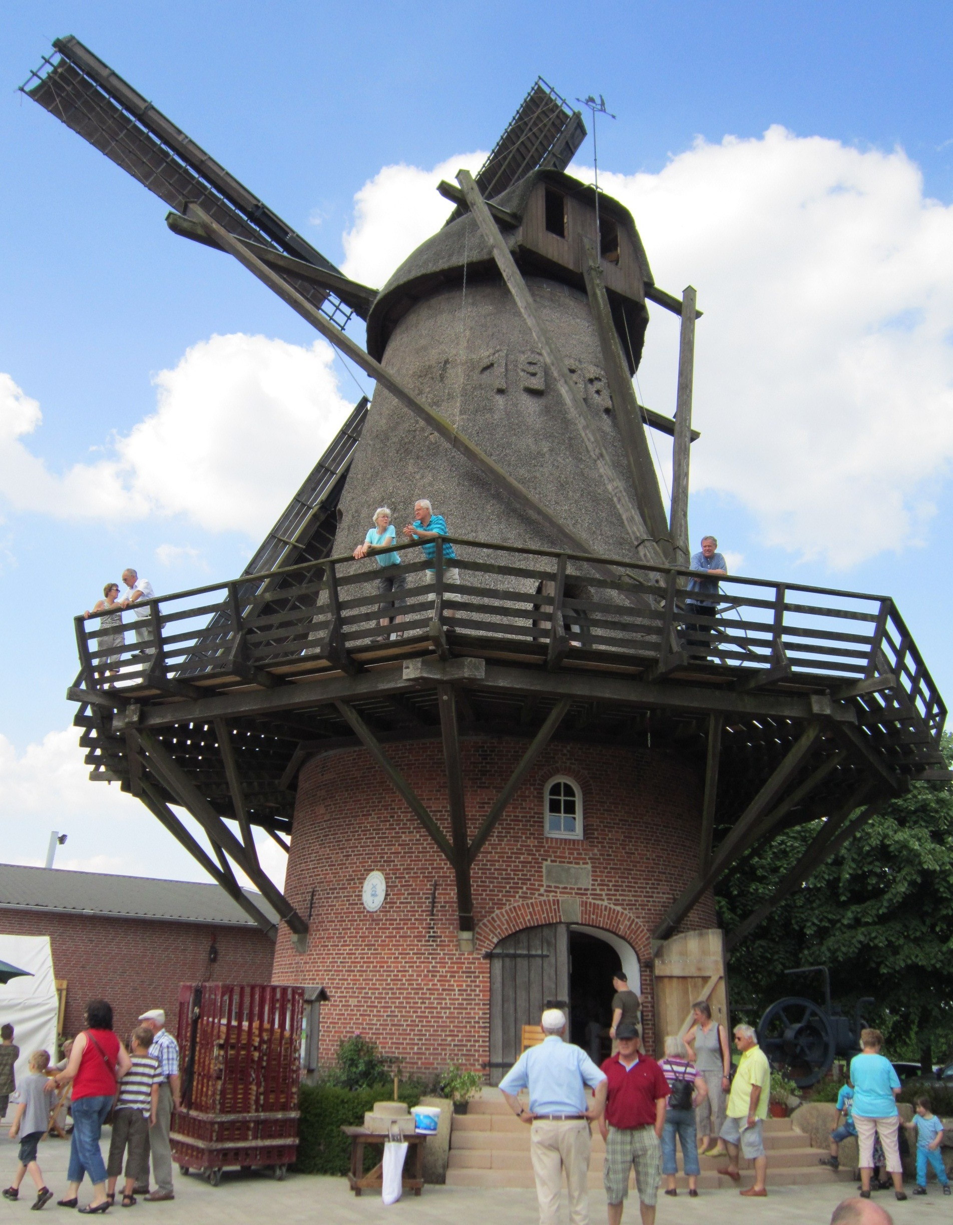 Windmill in Georgsdorf (Neuenhaus, Landkreis Graftschaft Bentheim, Lower Saxony)